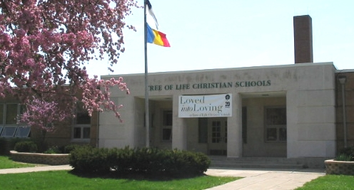 Tree of Life Christian Schools Northridge Branch. Taken in the spring of 2008